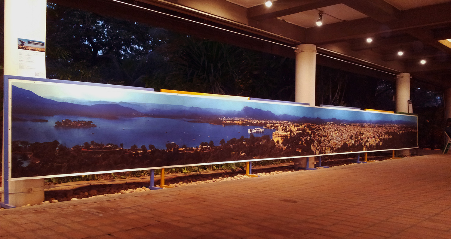 This is the first gigapixel image of any indian city and this is the first and largest digital interactive image in India. This image is a panorama of 1456 individual shots stitched together. Shot with Canon 550D and Canon 400mm 5.6 lens and robotic panoramic head. Anyone can access the website and experience this unique interactive tour of Udaipur. One can zoom nearly to the infinite and see extreme details of Udaipur’s monuments.